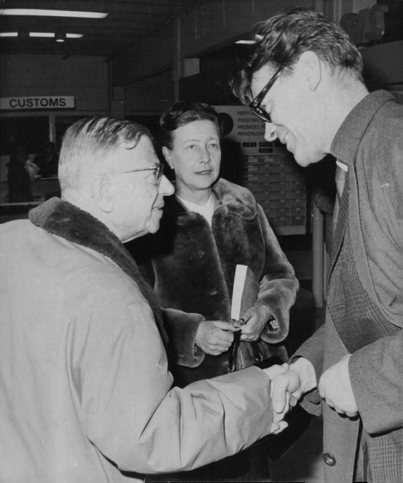 Jean-Paul Sartre and Simone de Beauvoir are welcomed by Dr. John Takman at Stockholm Arlanda Airport after arriving for a meeting with the Russell Tribunal on the Vietnam War. Published in Svenska Dagbladet on 30/4 1967.